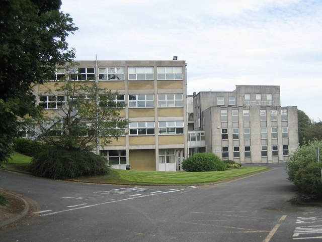 Mount Sackville Secondary School A secondary and junior school. Mount Sackville became the property of the Sisters of Saint Joseph of Cluny in January 1864 for the sum of 70,000 francs,€10,000.